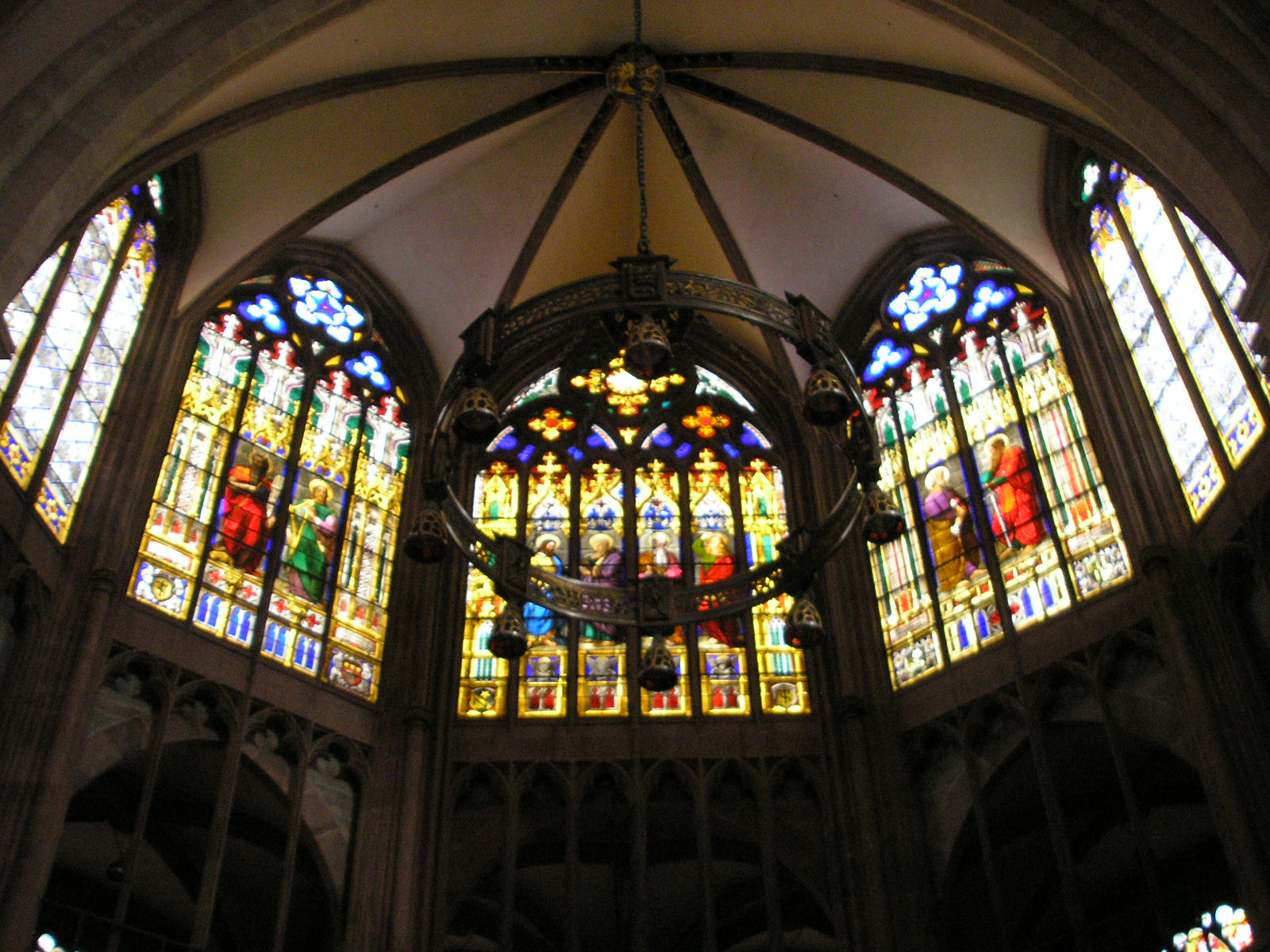 Apse of the Basel Münster.